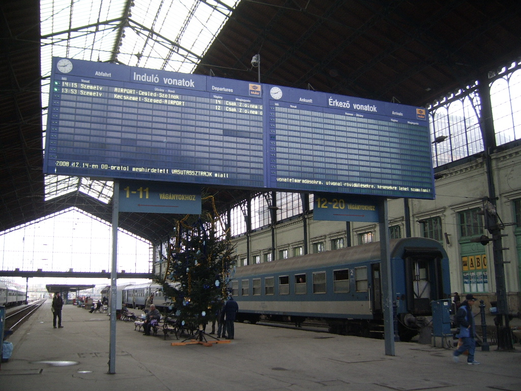 Strike by railway workers: only 2 sheduled trains from Budapest-Nyugati for the next few hours